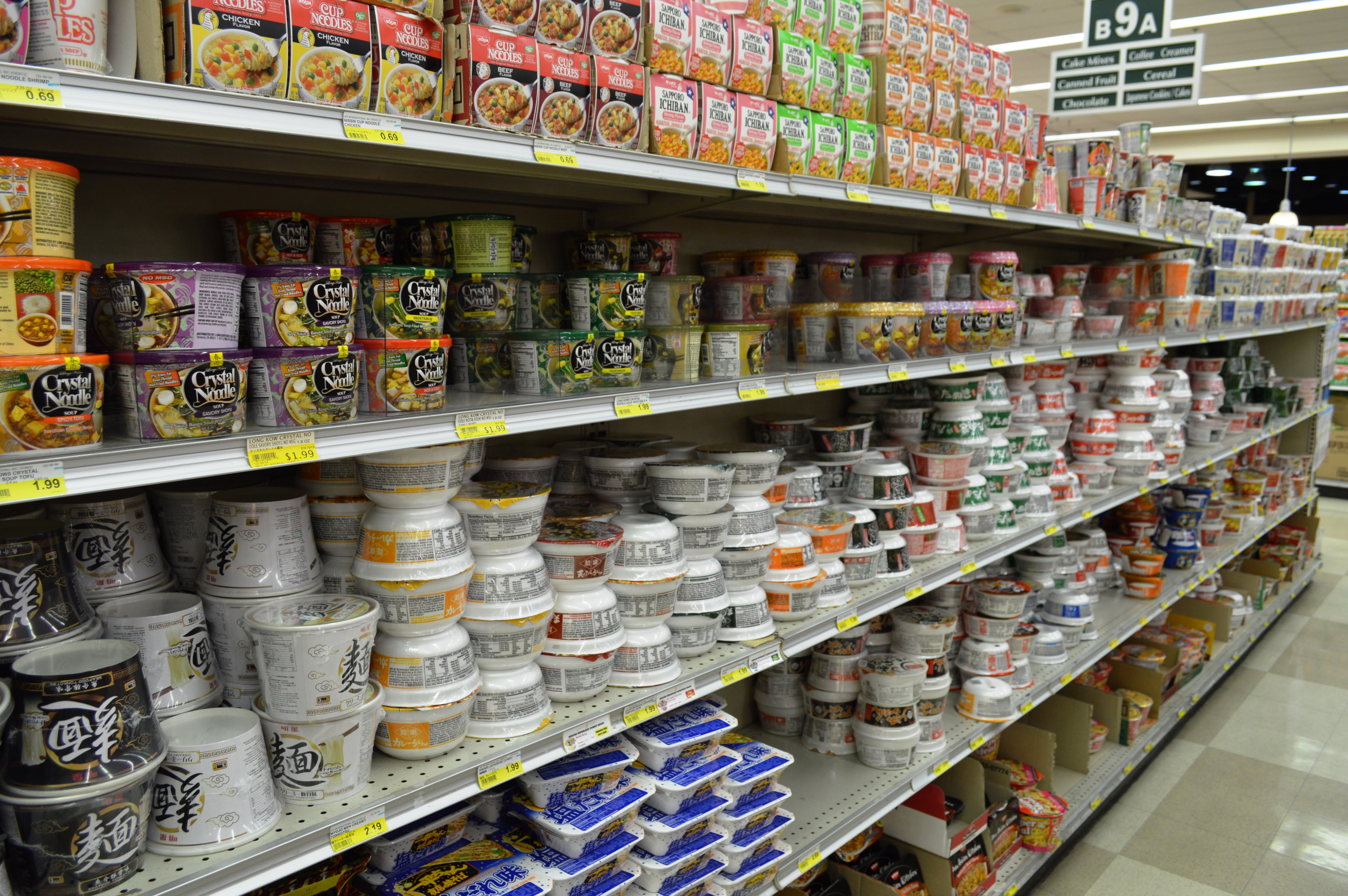 Various "cups" of instant noodles/soups sold at Mitsuwa Marketplace's Costa Mesa location in Orange County, California. Most of the items here are Japanese ramen, udon and yakisoba, some of which are packaged for the North American market. "Crystal Noodle Soup" is probably Vietnamese.